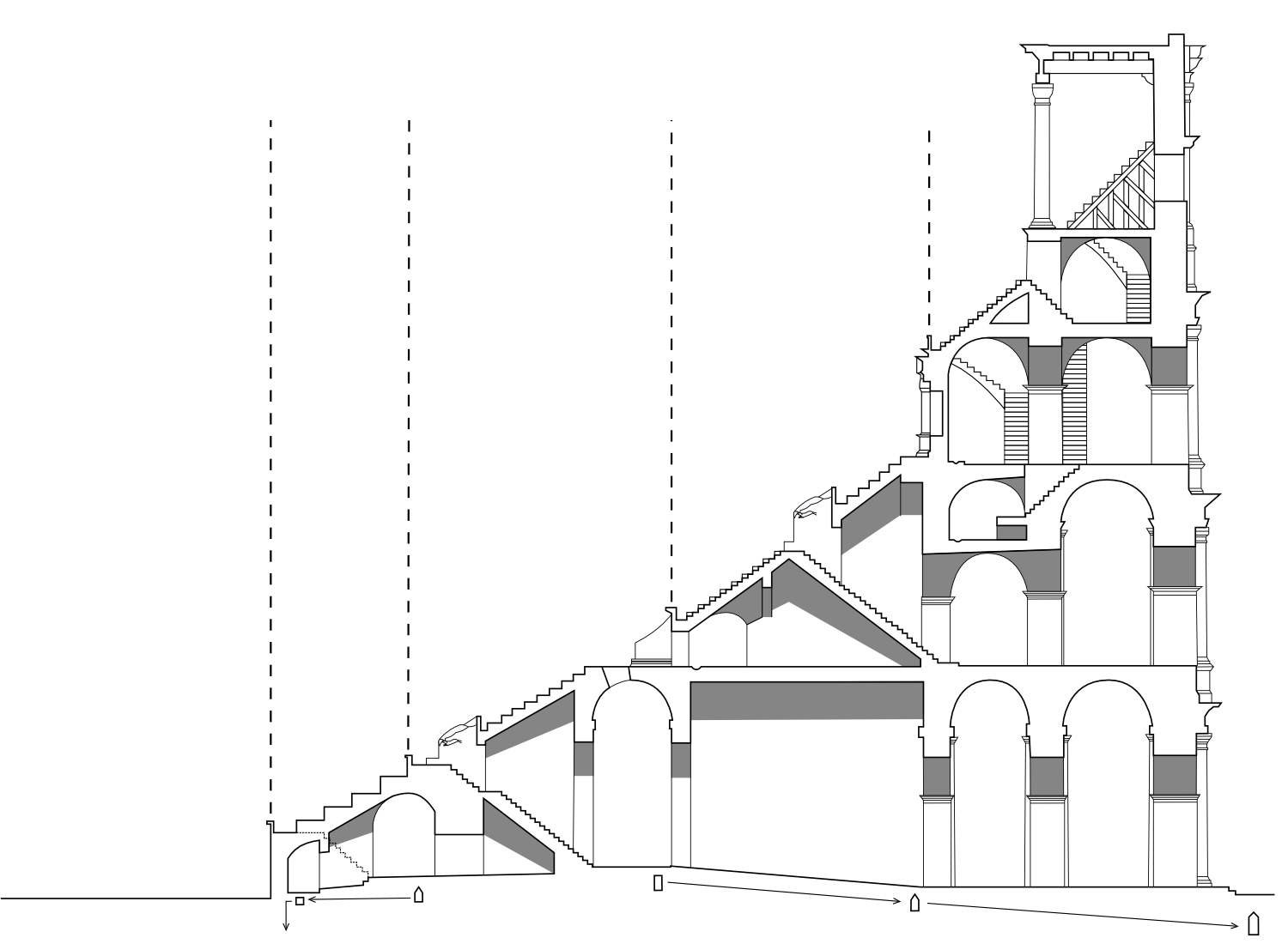 Plain profile of Colosseum, usable for all sorts of purposes. Created by Ningyou.